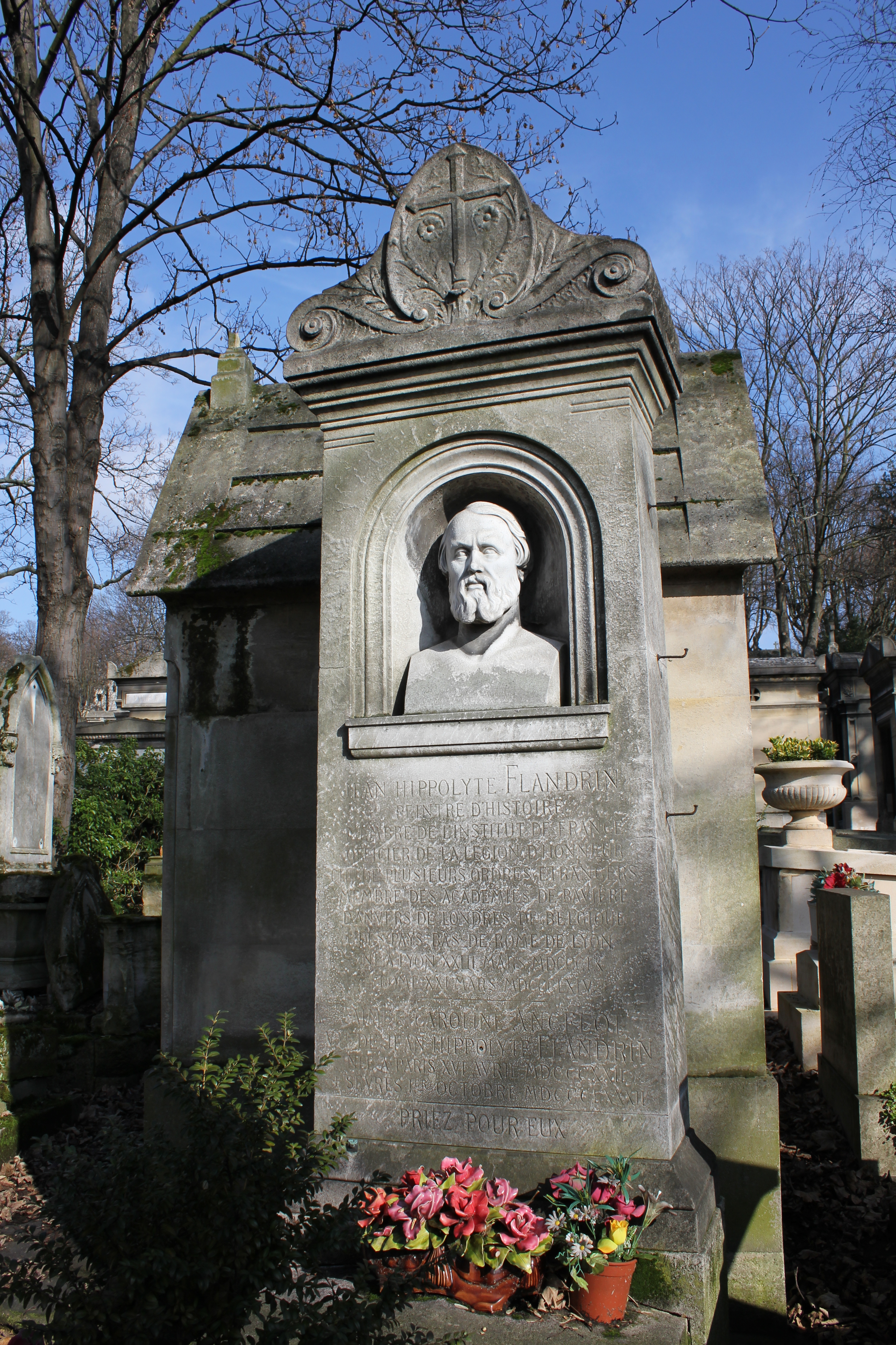 Jean-Hippolyte Flandrin's tombstone in Père Lachaise Cemetery, in Paris.